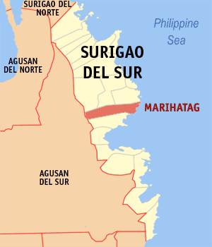 Map of the Surigao del Sur showing the location of Marihatag